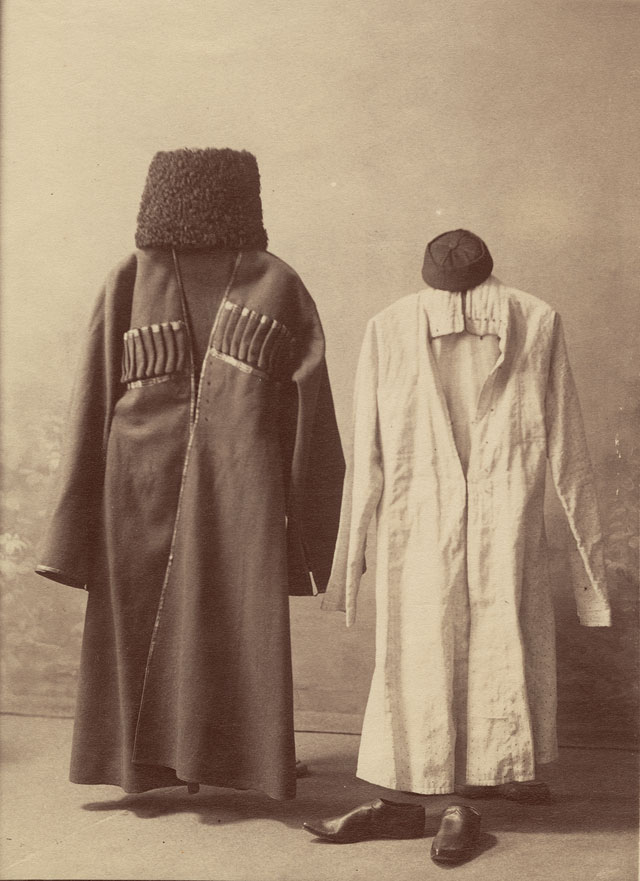 Caucasian dress - chokha